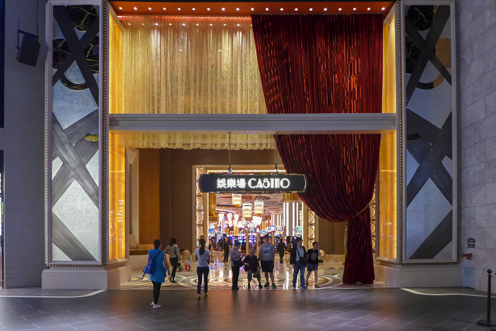 Studio City Macau Times Square Macau